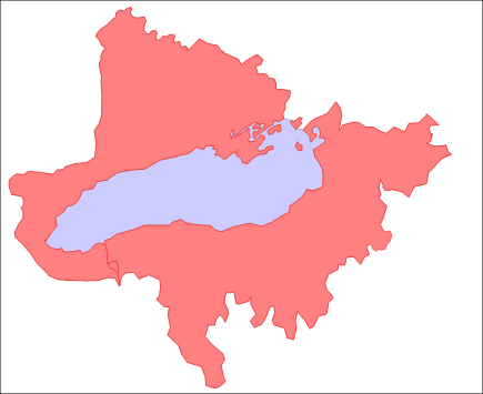 Map of the Lake Ontario watershed.